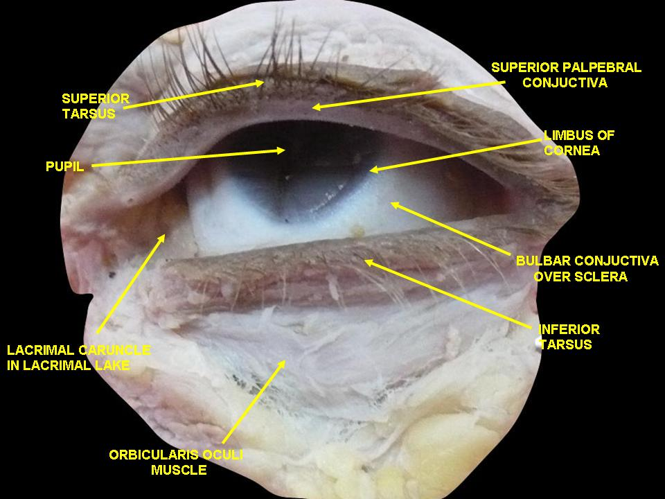 Anatomical dissection